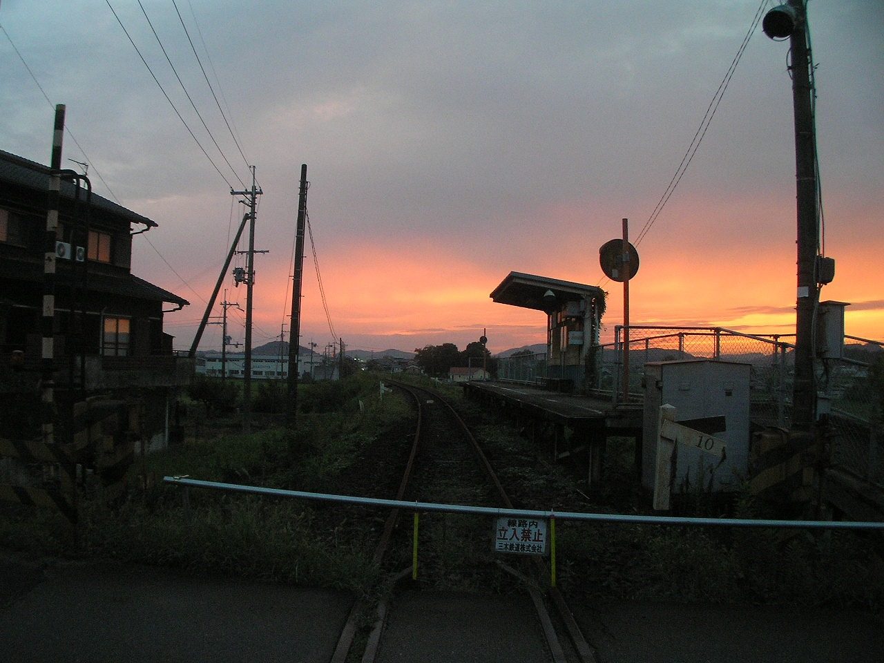 Miki Railway Sosa Station